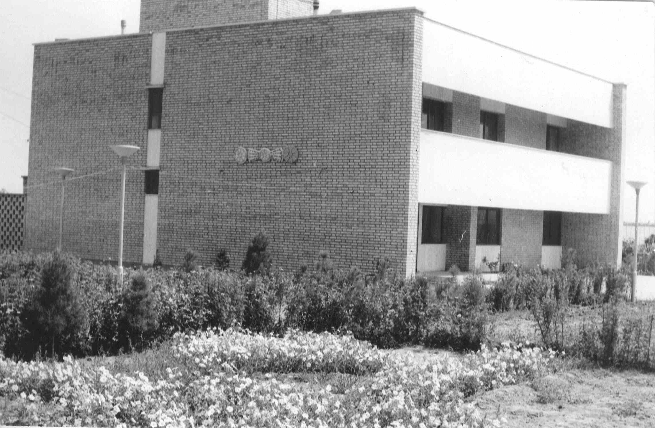 Guest house of Rafsanjan